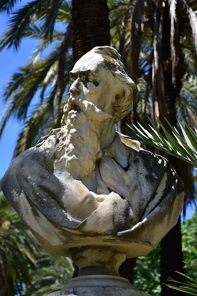 Marble bust of painter Salvatore Lo Forte, in Villa Bonanno garden in Palermo, Sicily